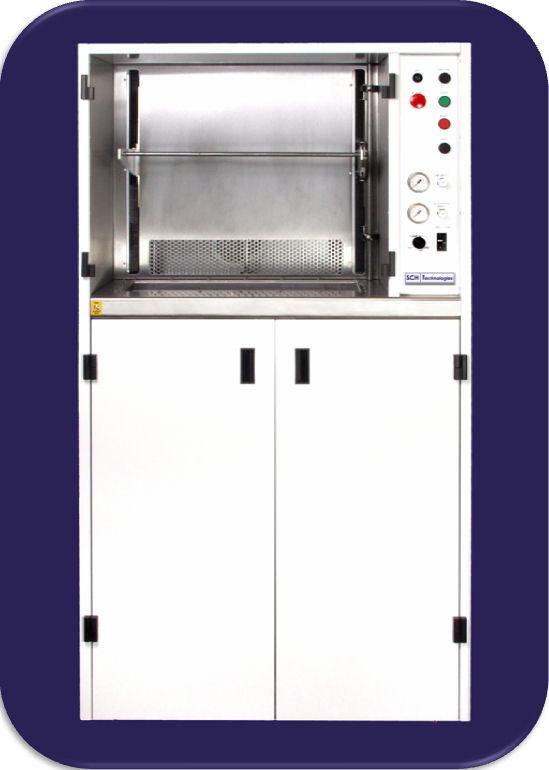 DS101 Dip Coating System for application of conformal coatings